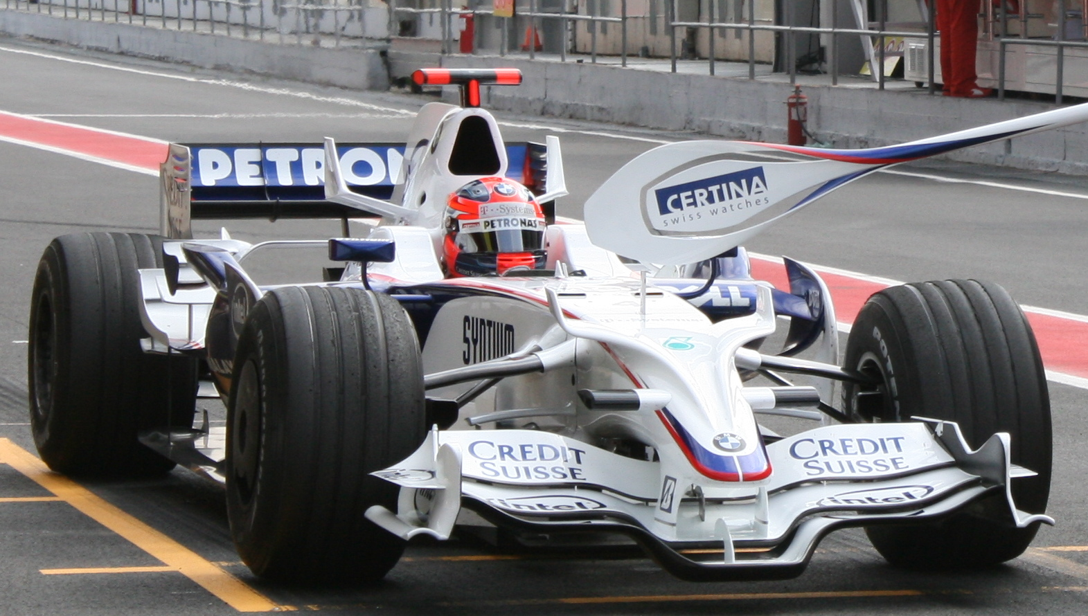 BMW Sauber F1 Team, taken in Montmelo, Catalogna, Spain